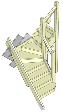 Sample of a model winder stairs manufactured by UK advanced bench joinery apprentices